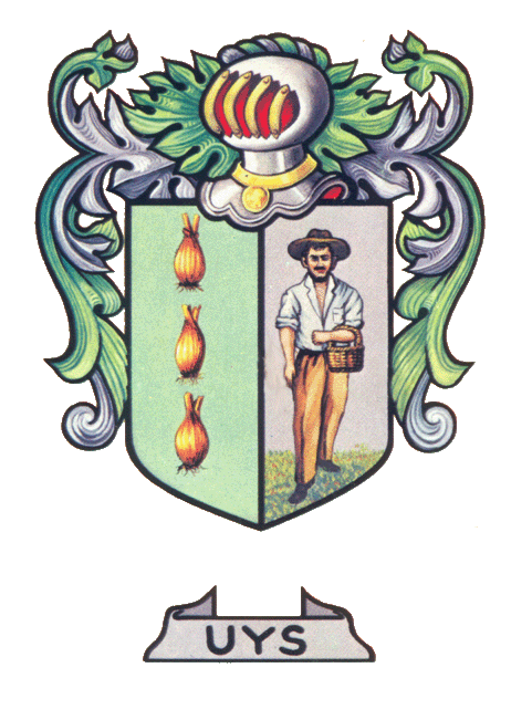 Uys Family Coat of Arms